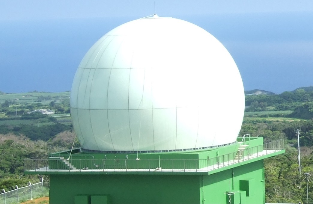 JFPS-7 Japan ASDF OKINOERABUJIMA SUB BASE, Kagoshima